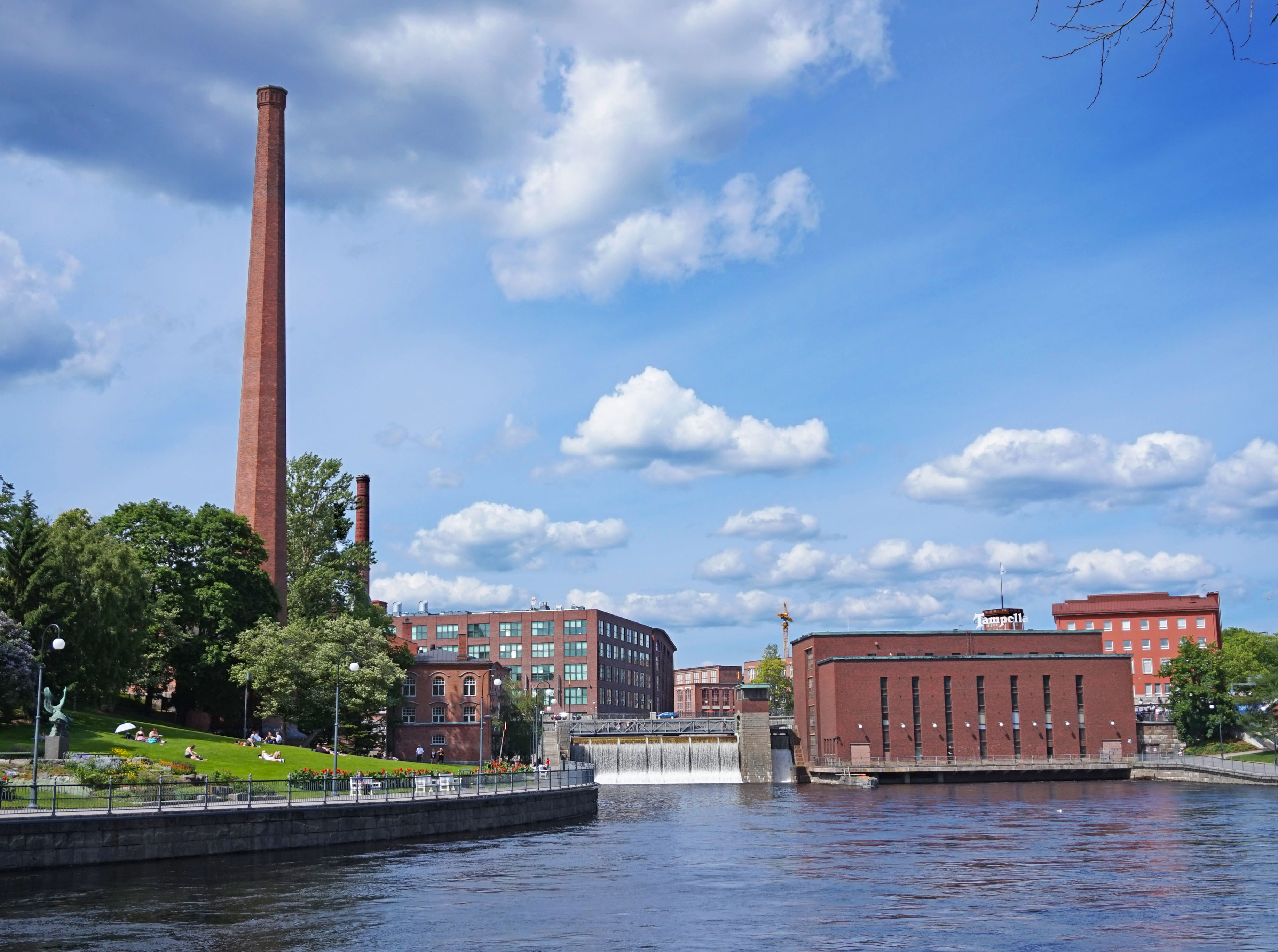 Tampere, Finland